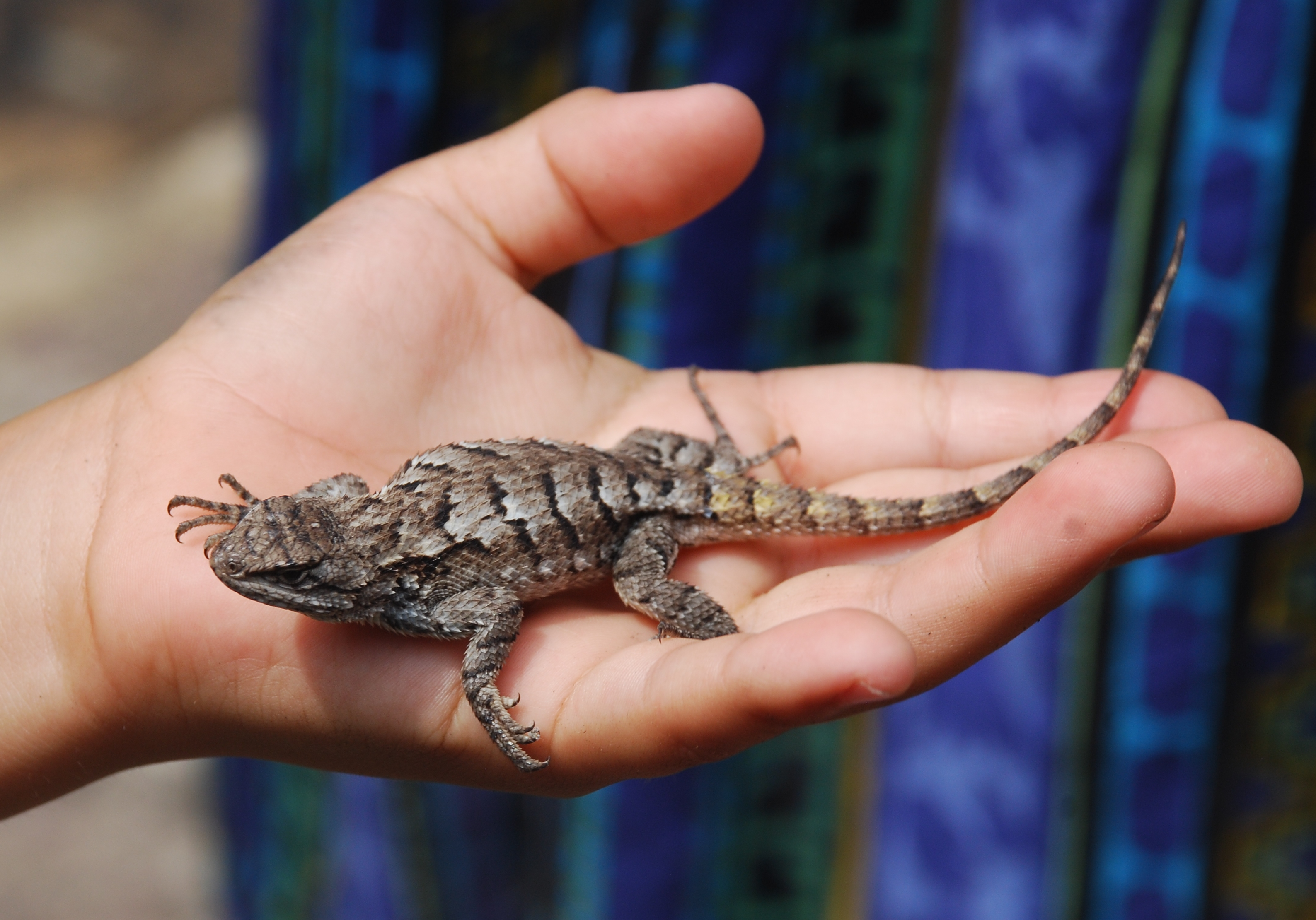 Eastern fence lizard (Sceloporus undulatus) in Douthat State Park